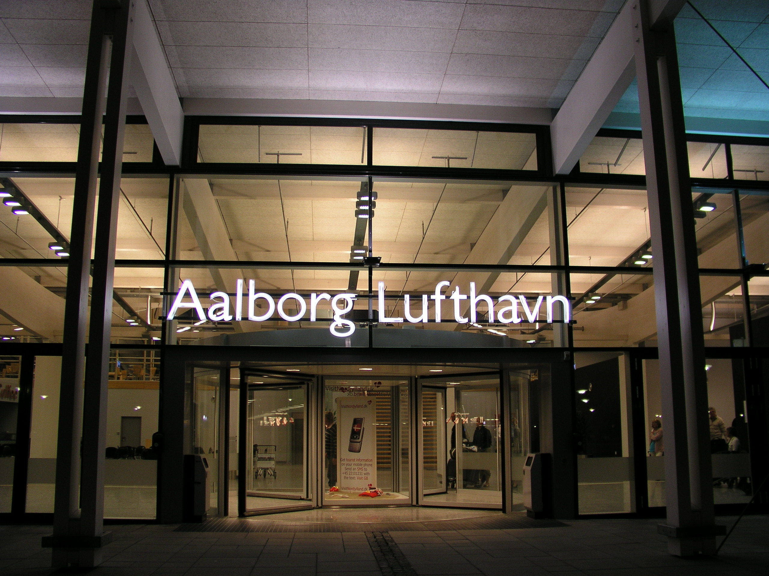 Enterance to Aalborg Airport.